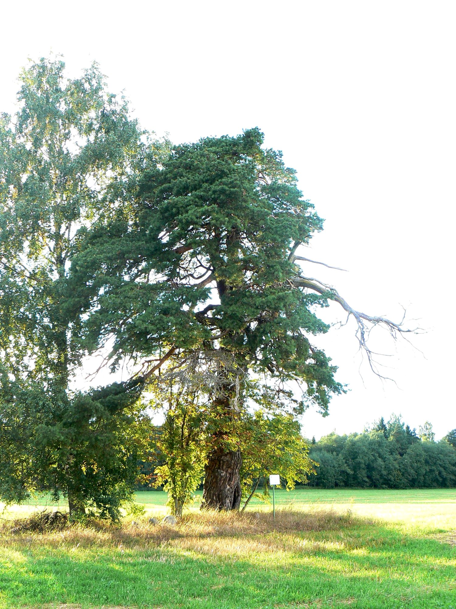 Kõlleste pine in Estonia